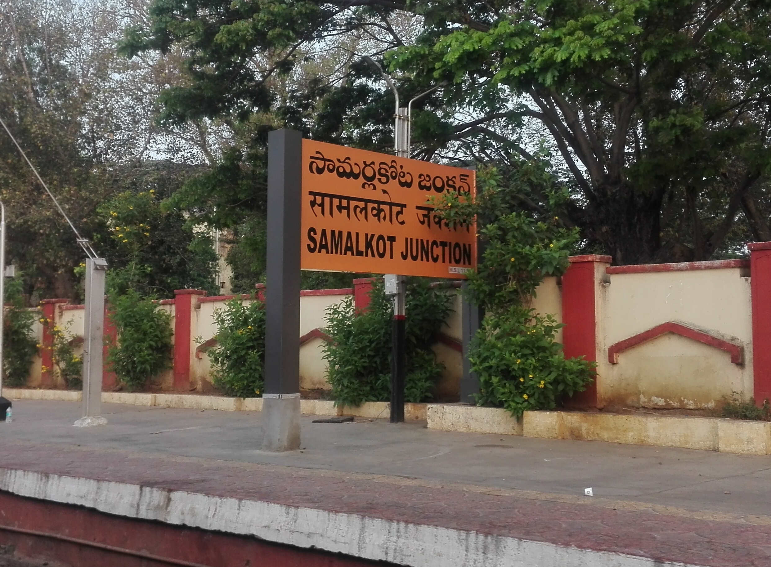 Northend nameboard of Samalkot Junction